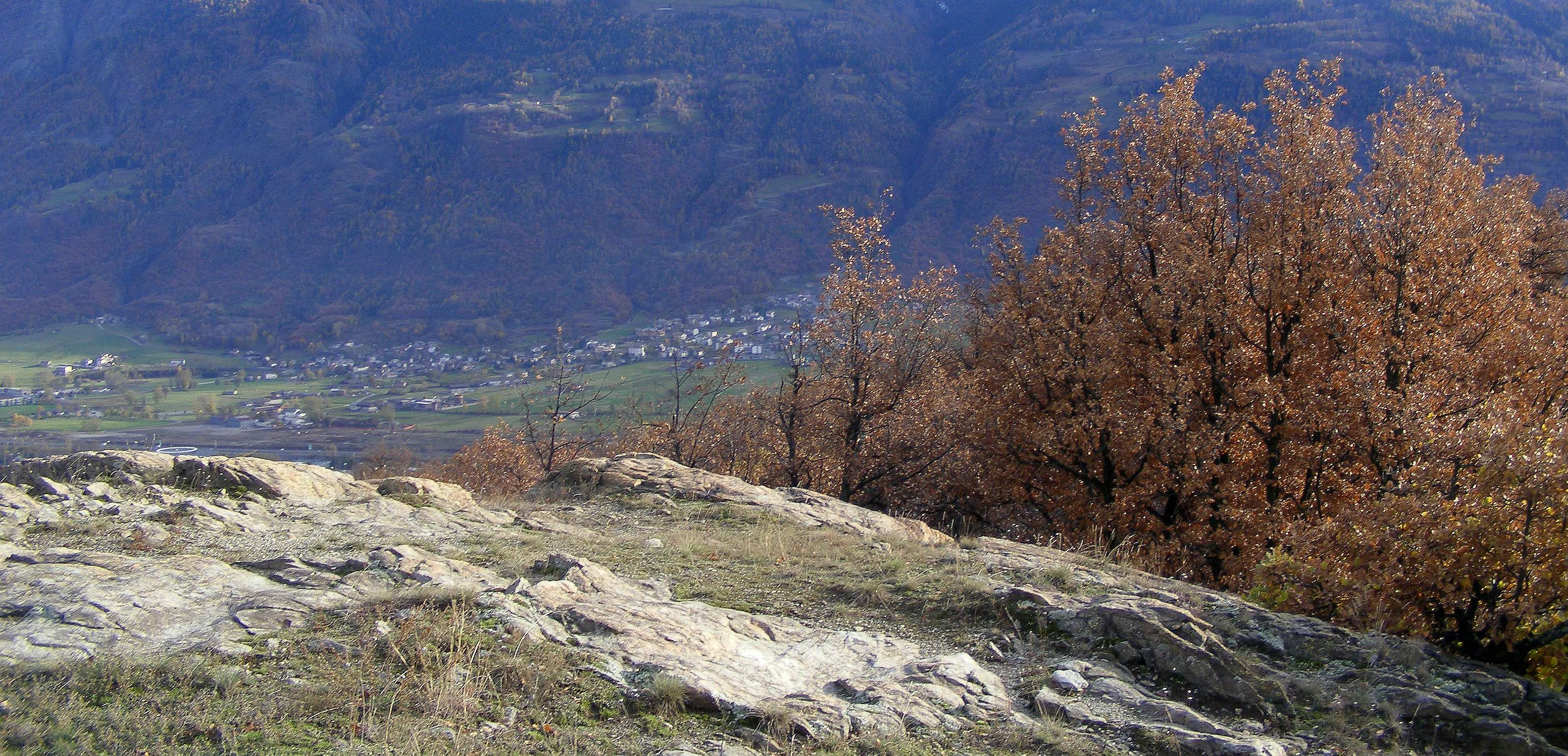 Tsatelet nature reserve (AO, Italy)